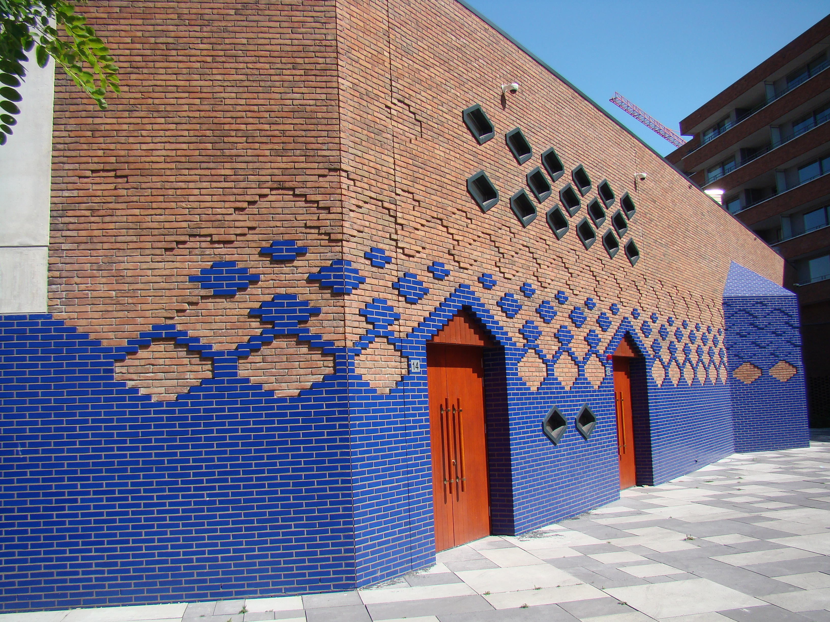 Babylon Walls in Slotervaart, Amsterdam